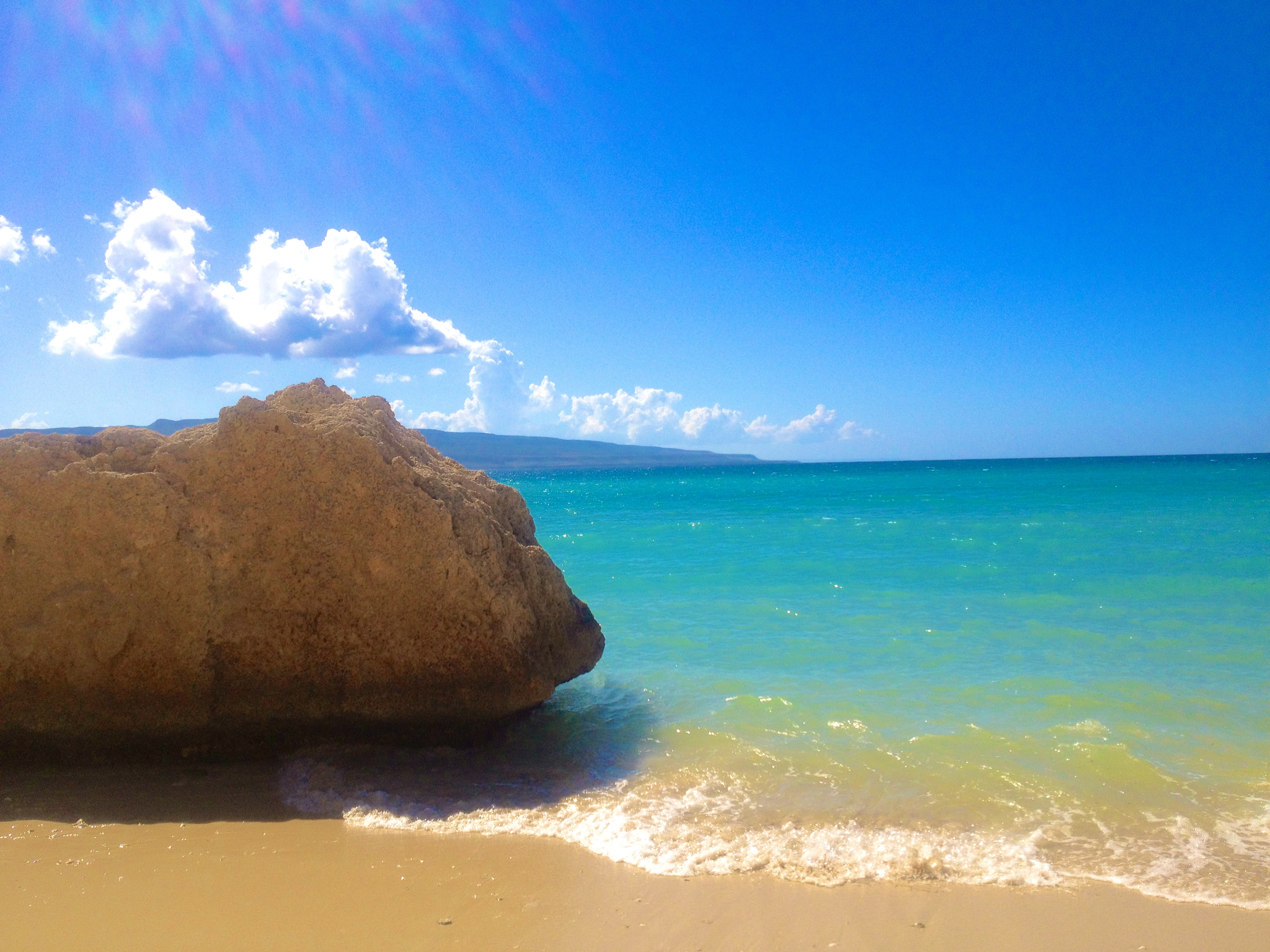 Grosse Roche Beach in Saint-Marc, Haiti Kreyòl ayisyen : Plaj Gwos Wòch nan Sen Mak, Ayiti